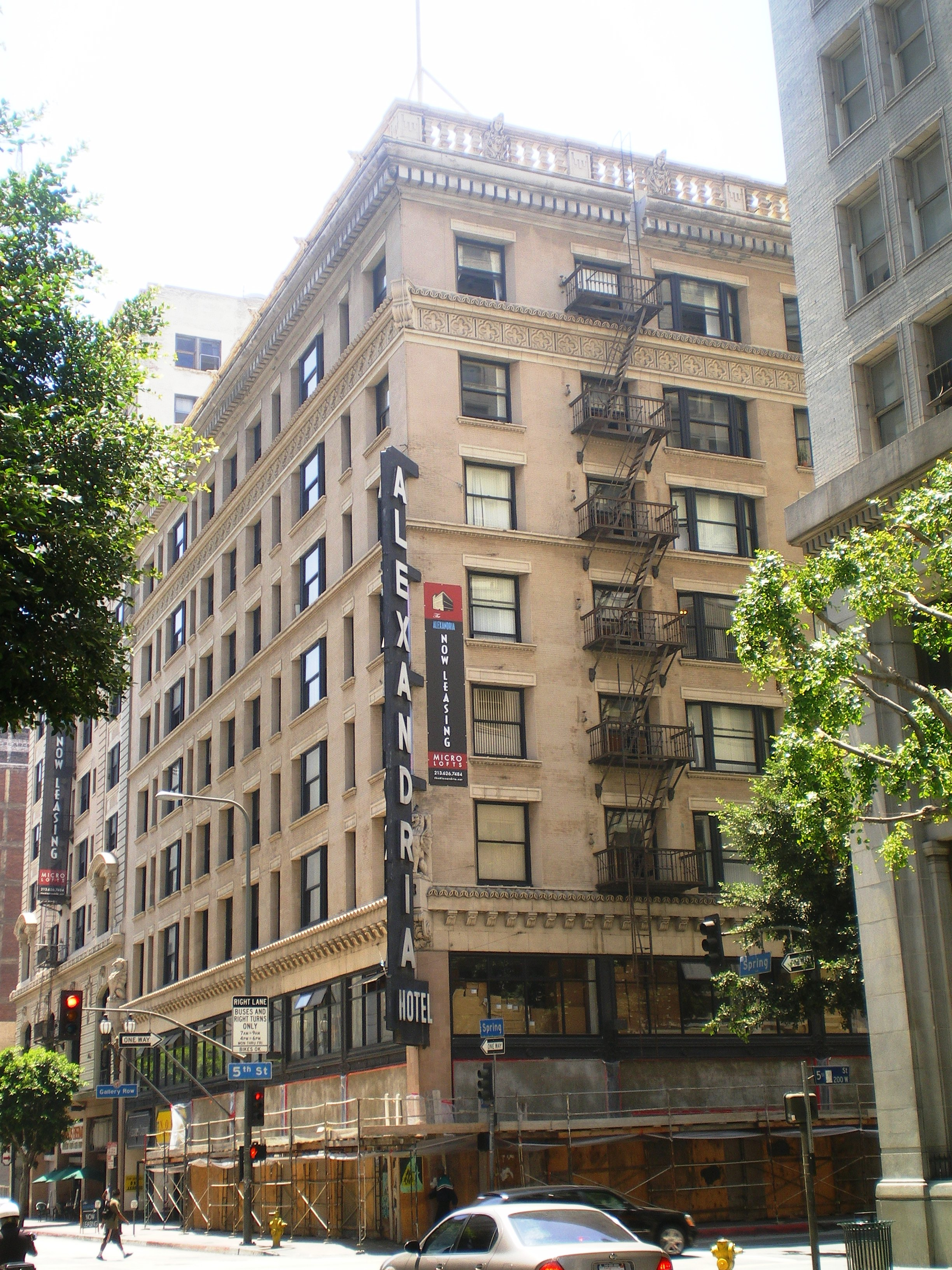 Hotel Alexandria (under renovation) — southwest corner of South Spring Street and 5th, Downtown Los Angeles, California. Historic district contributing property of the Spring Street Financial District, a historic district on the National Register of Historic Places in Los Angeles.